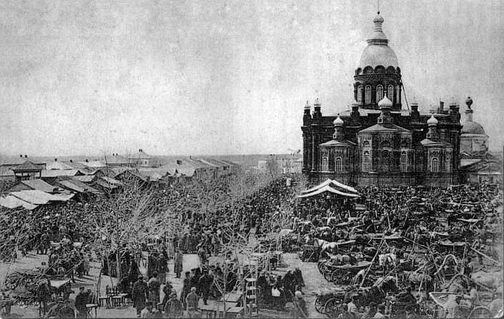 Bazarnaya (Red) Square in Oboyan.